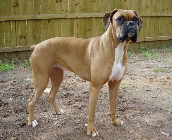 A brown female Boxer named Isabella Princesa.